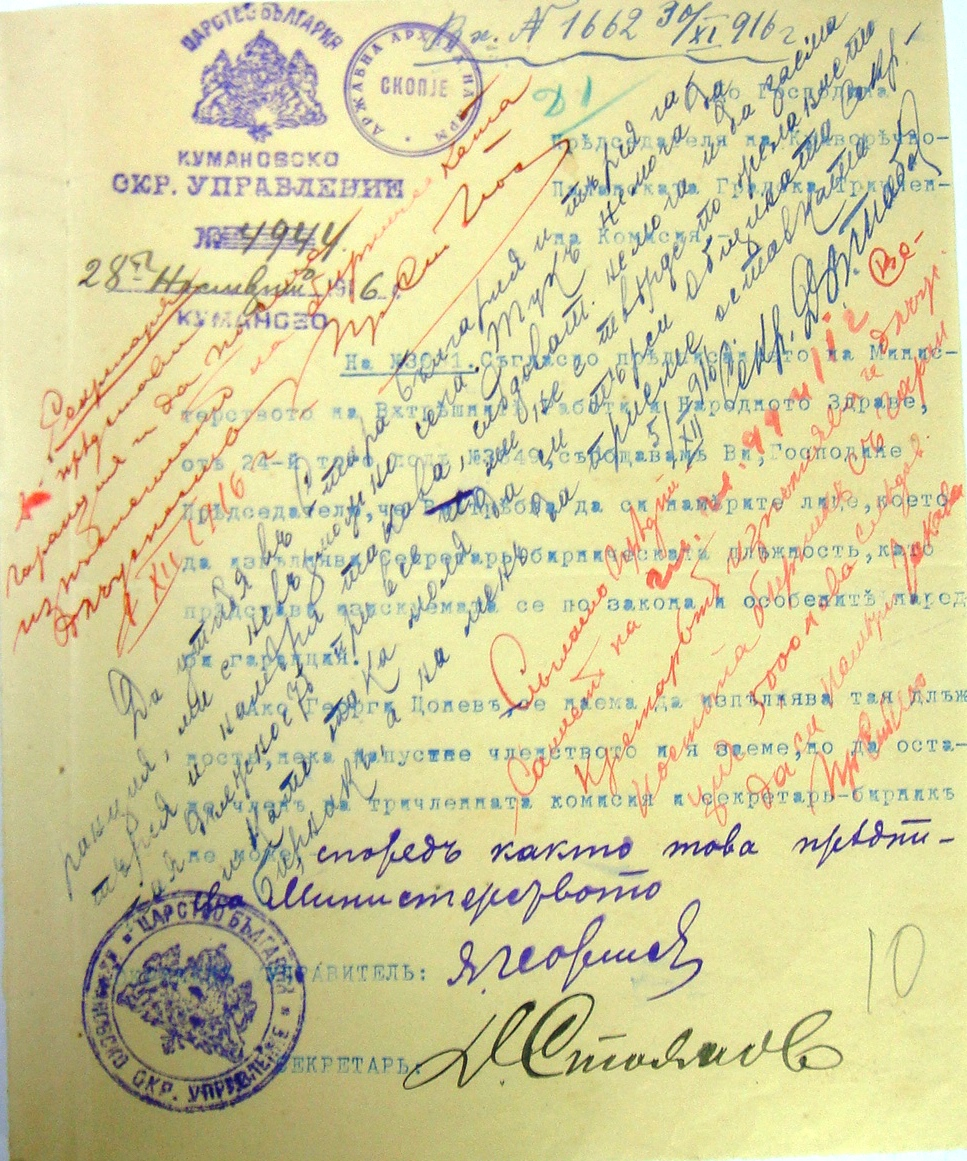 Document stamped by Kumanovo District, in the Kingdom of Bulgaria, on 28 November 1916. This media file is produced by Wikipedian in Residence in Category:Wikipedian in Residence at DARM in 2016.